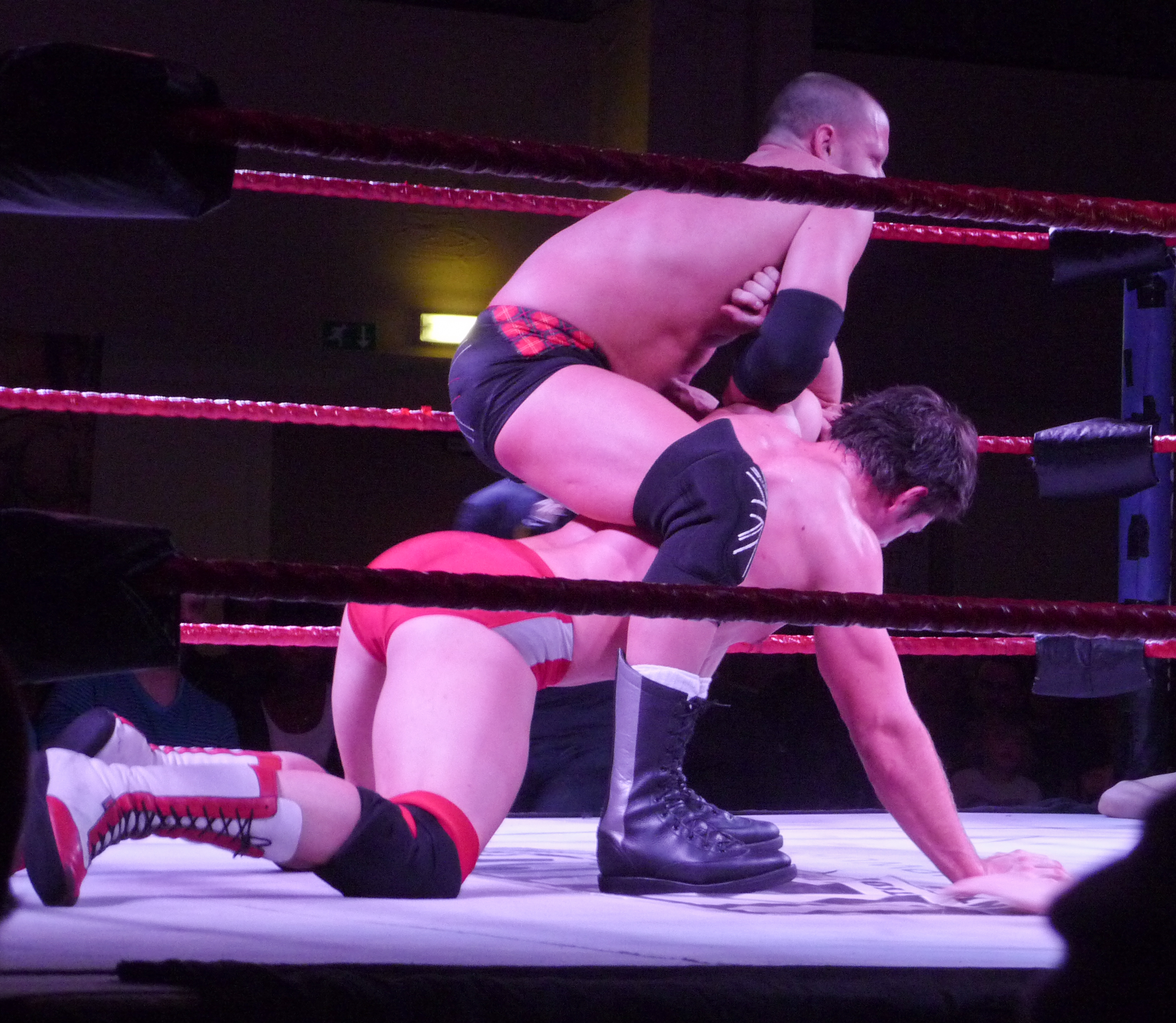 Nigel McGuinness performing the London Dungeon on Joel Redman at an IPW:UK show